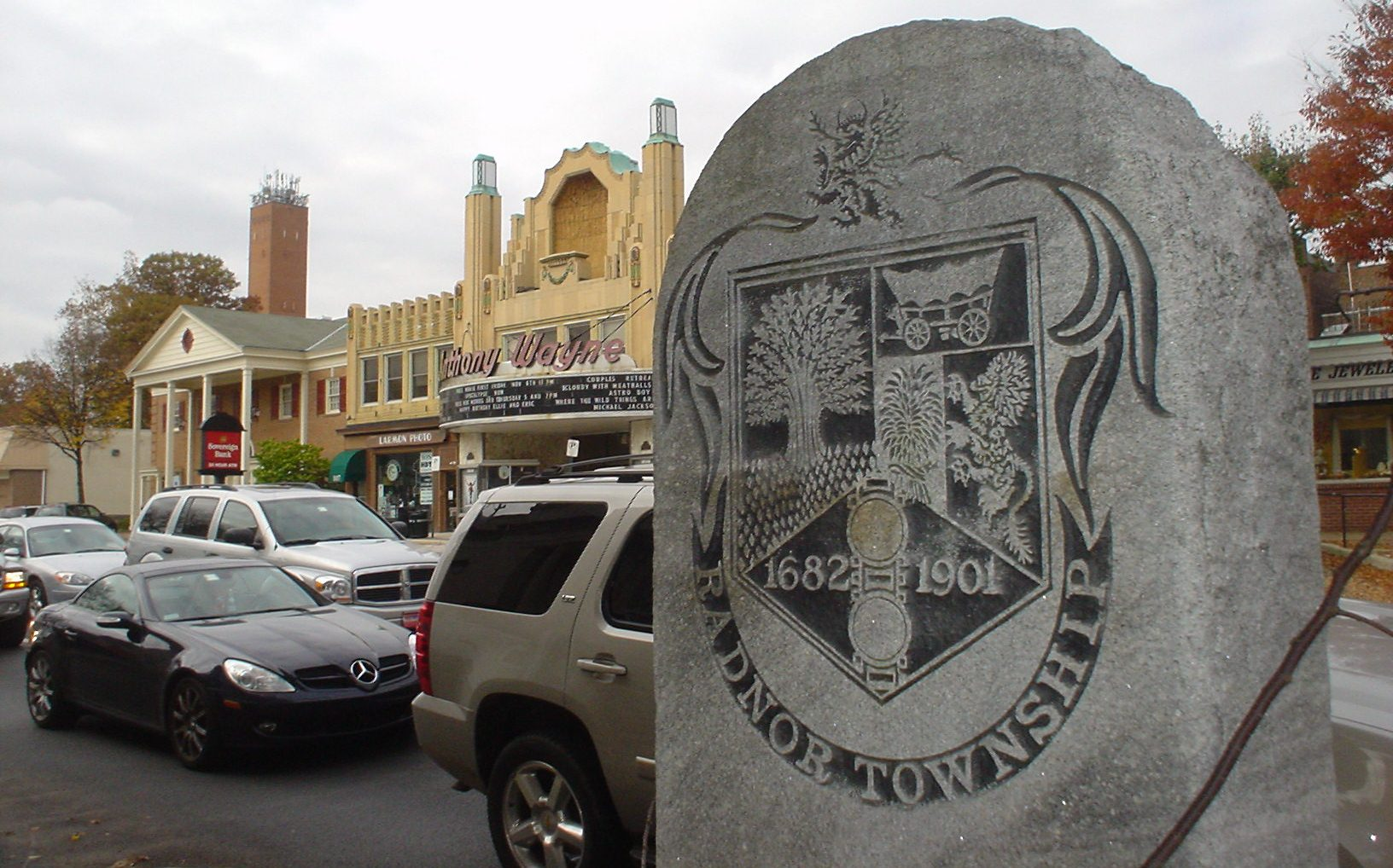 Memorial mile post on U.S. 30 in Wayne, Radnor Township, PA across the street from the Anthony Wayne Movie theater in downtown Wayne. Opposite side of post says "13 M to P" (13 miles to Philadelphia). My own photograph, which I give to the Public Domain.